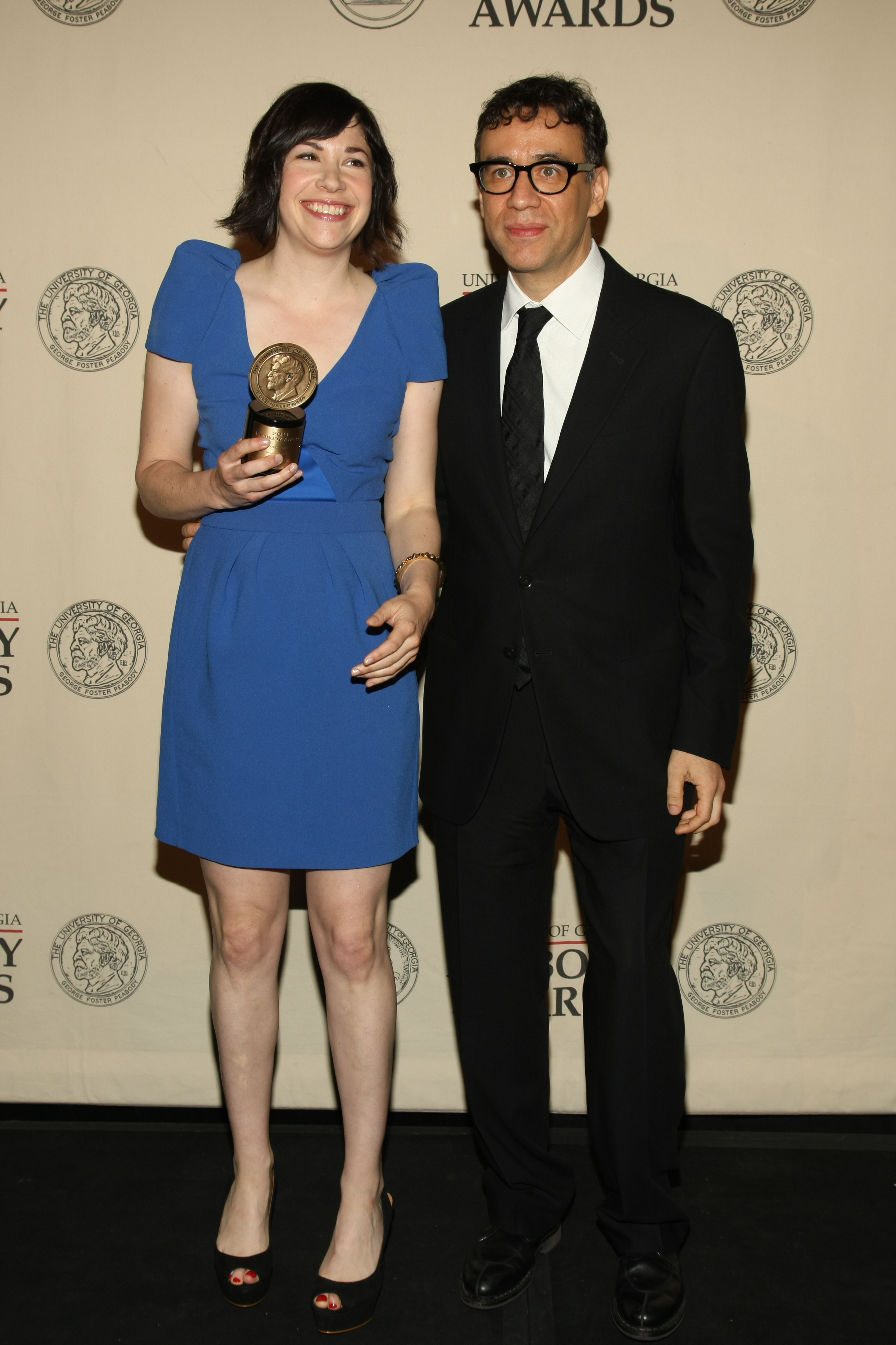 PHOTO CREDIT: ANDERS KRUSBERG / PEABODY AWARDS Carrie Brownstein and Fred Armisen 71st Annual Peabody Awards Luncheon Waldorf=Astoria Hotel May 21, 2012